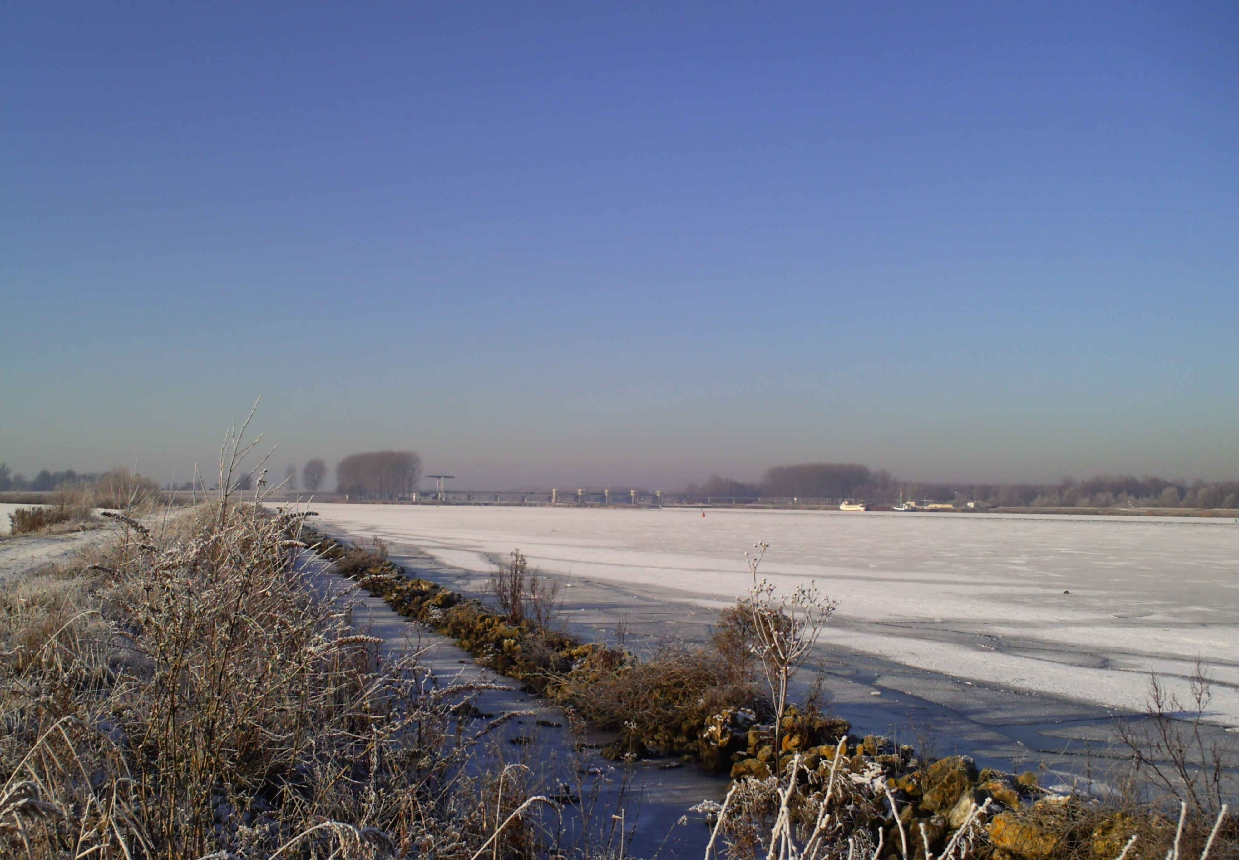 A frozen Nijkerkernauw.